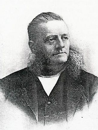 Depicted person: Ebenezer W. Peirce – Union Army officer